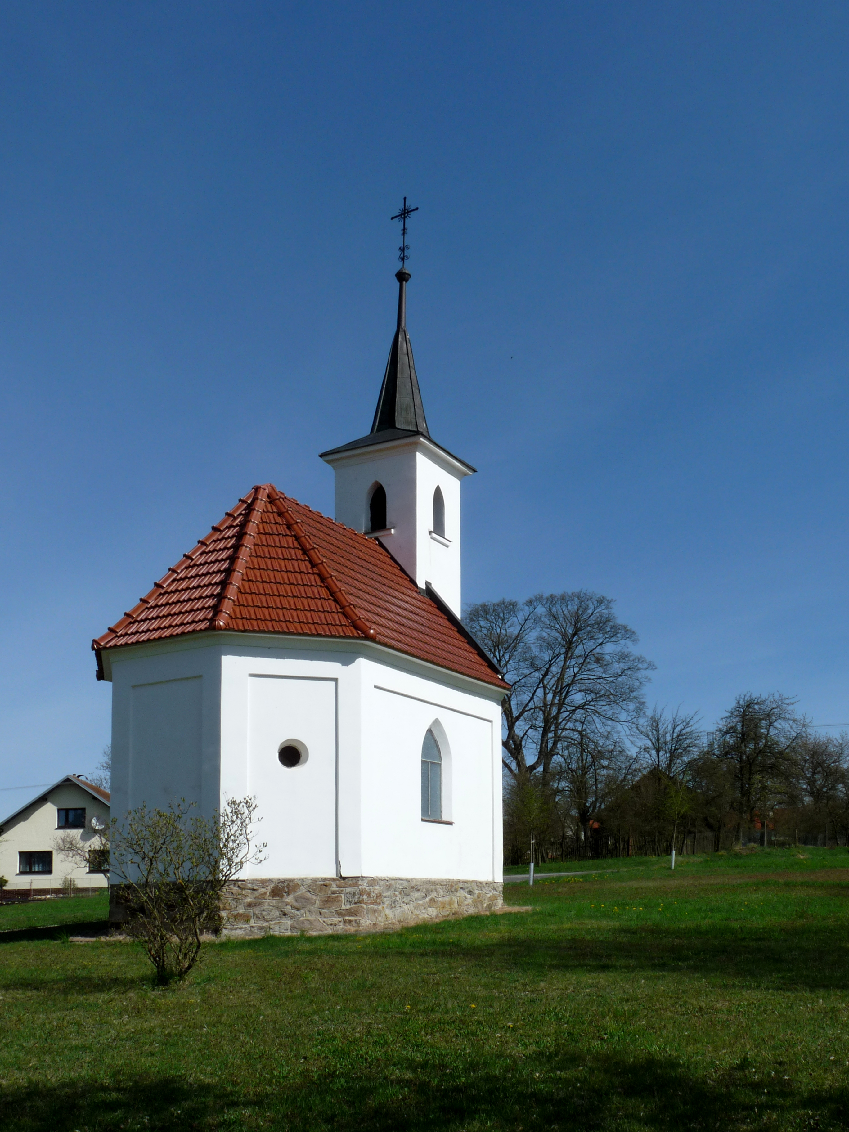 Chapel in the village of Bitětice, part of the town of Pelhřimov, Pelhřimov District, Vysočina Region, Czech Republic.